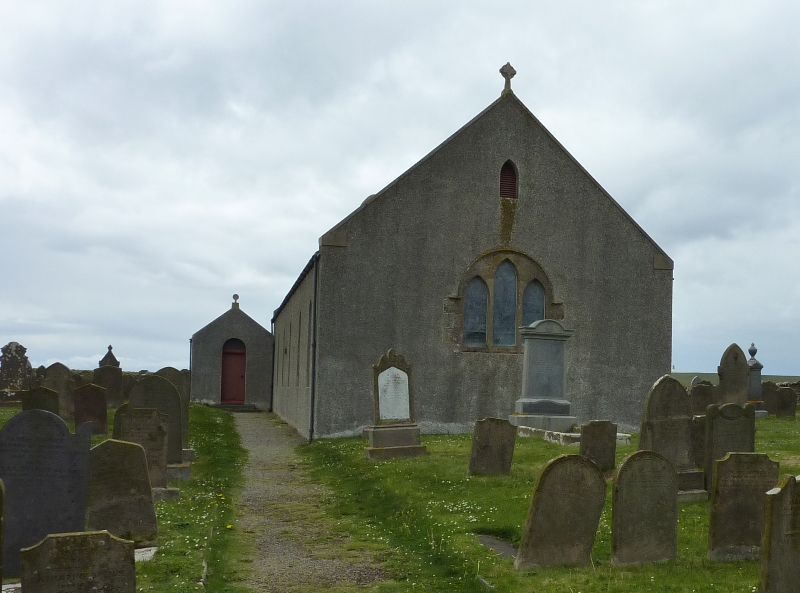 St Magnus Church, Birsay, Mainland, Orkney, Scotland. View from the east.